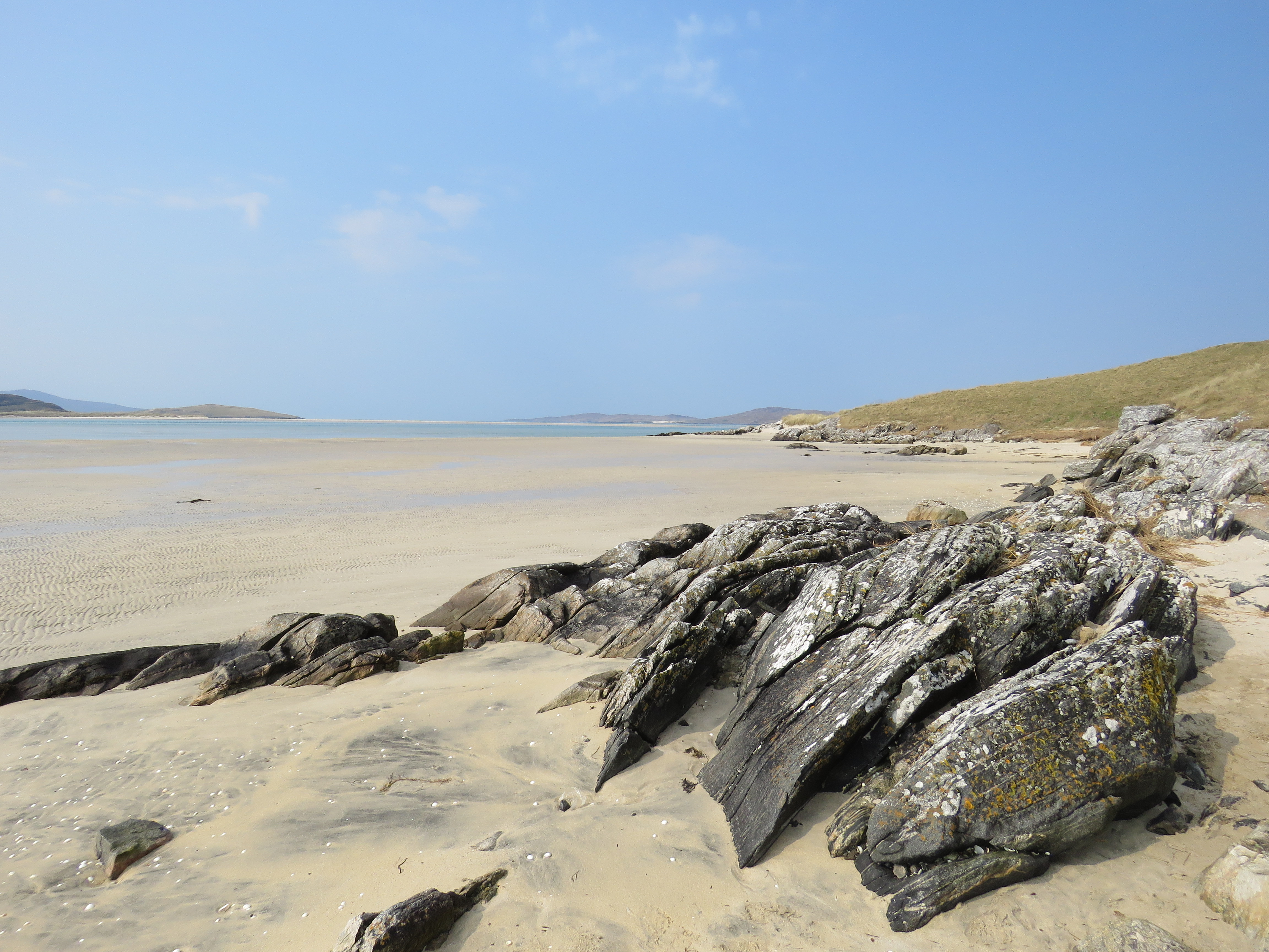 Lusgentyre beach, Harris, outer Hebrides